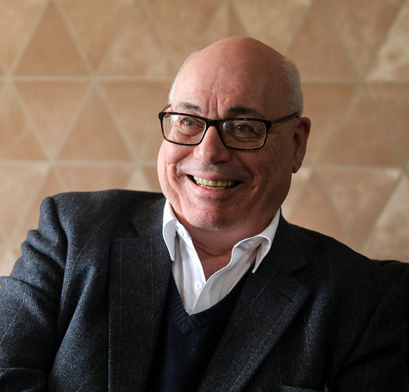 Chris Cook during an interview with Tehran Times